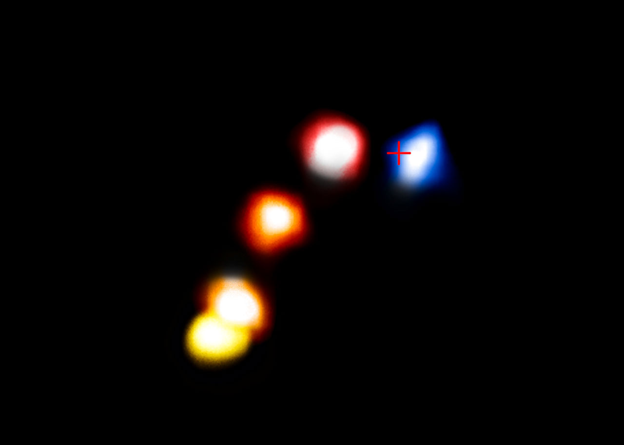 This composite image shows the motion of the dusty cloud G2 as it closes in on, and then passes, the supermassive black hole at the centre of the Milky Way. These new observations with ESO’s VLT have shown that the cloud appears to have survived its close encounter with the black hole and remains a compact object that is not significantly extended. In this image the position of the cloud in the years 2006, 2010, 2012 and February and September 2014 are shown, from left to right. The blobs have been colourised to show the motion of the cloud, red indicated that the object is receding and blue approaching. The cross marks the position of the supermassive black hole.